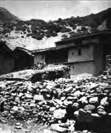 Village of Niti.